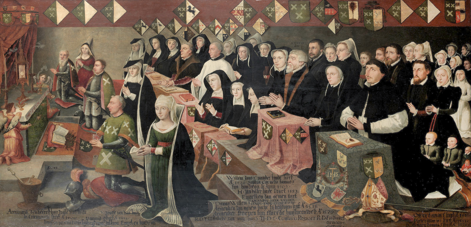 Members of the van der Linden family oil on panel 88.4 x 176.2 cm inscribed c.: AETATIS/69 over Damas van der Linden (1501-1580)